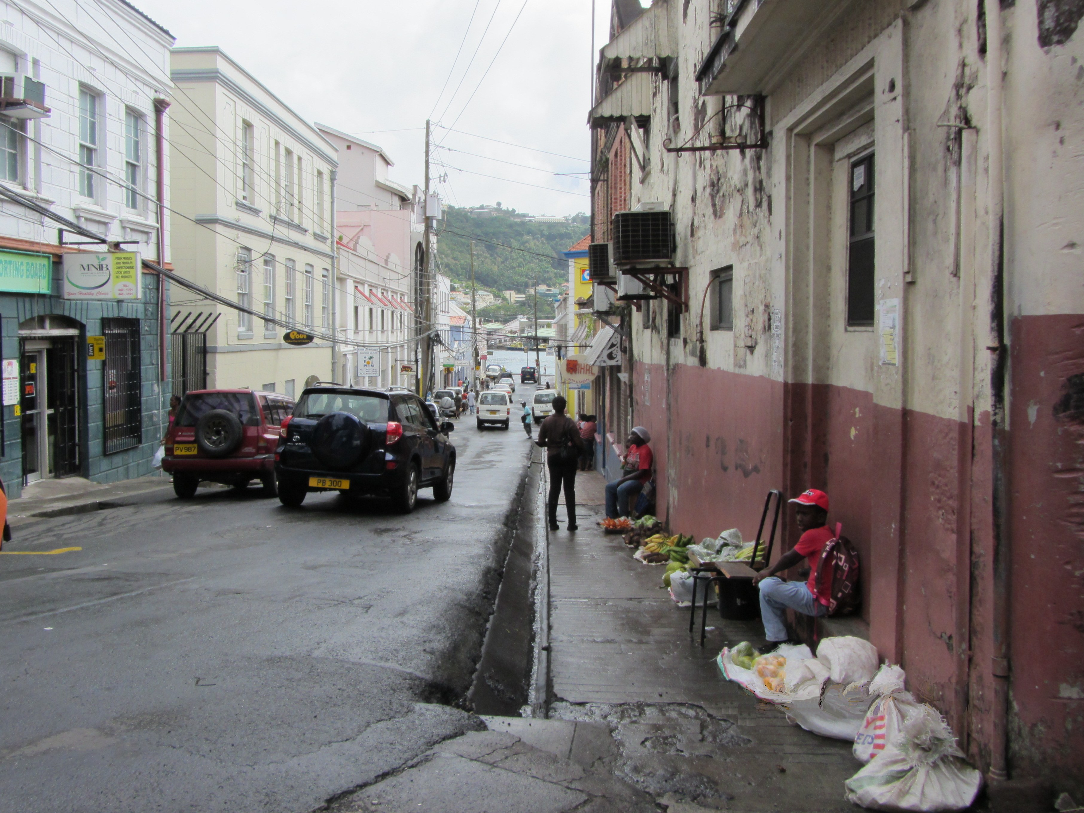 Street vendors on Young Street in St. George's, Grenada